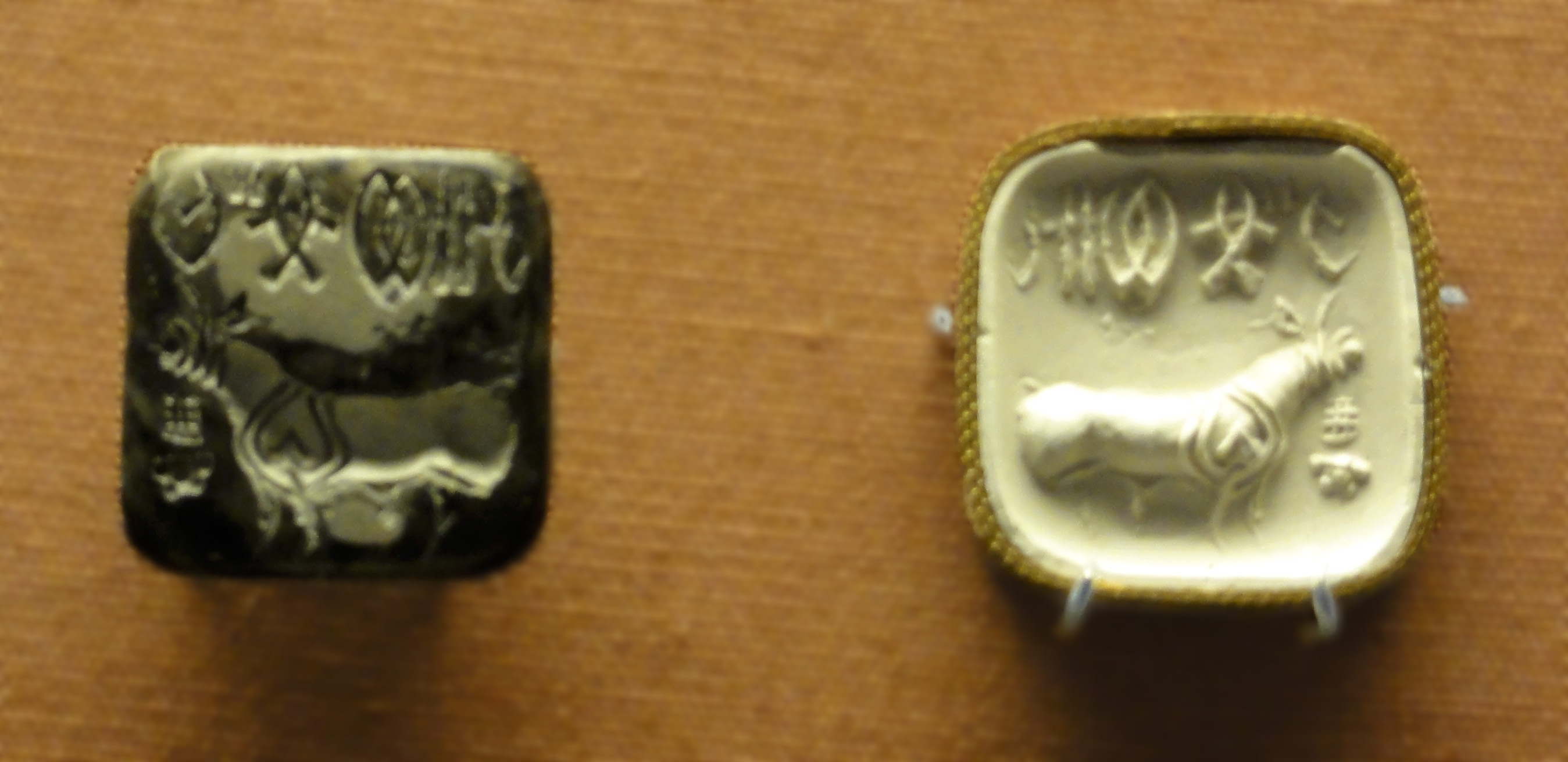 Indus stamp-seal 2500BC-2000BC. This stamp featured in the BBC/BM radio series 'A History of the World in 100 objects' as noted in the BM display. Previously thought to depict a unicorn, now thought to be a bull.